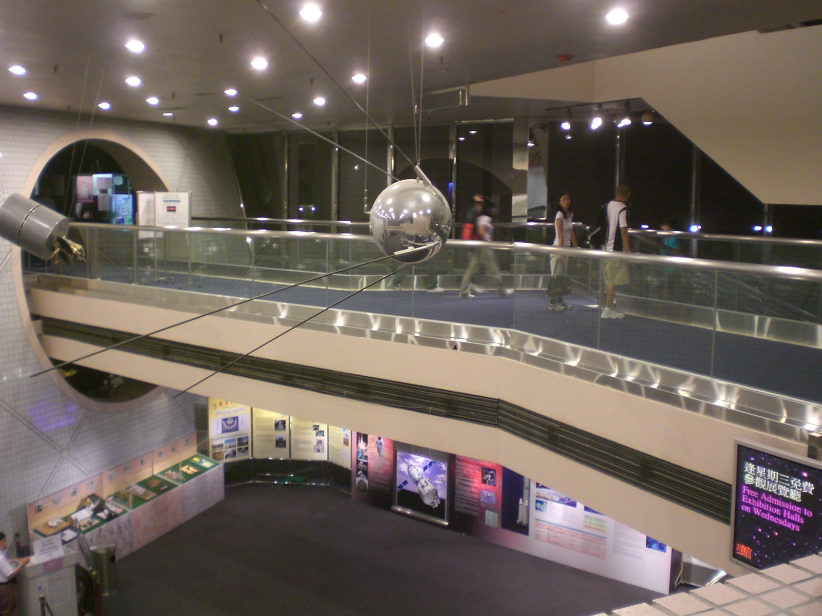 尖沙咀香港太空館室內